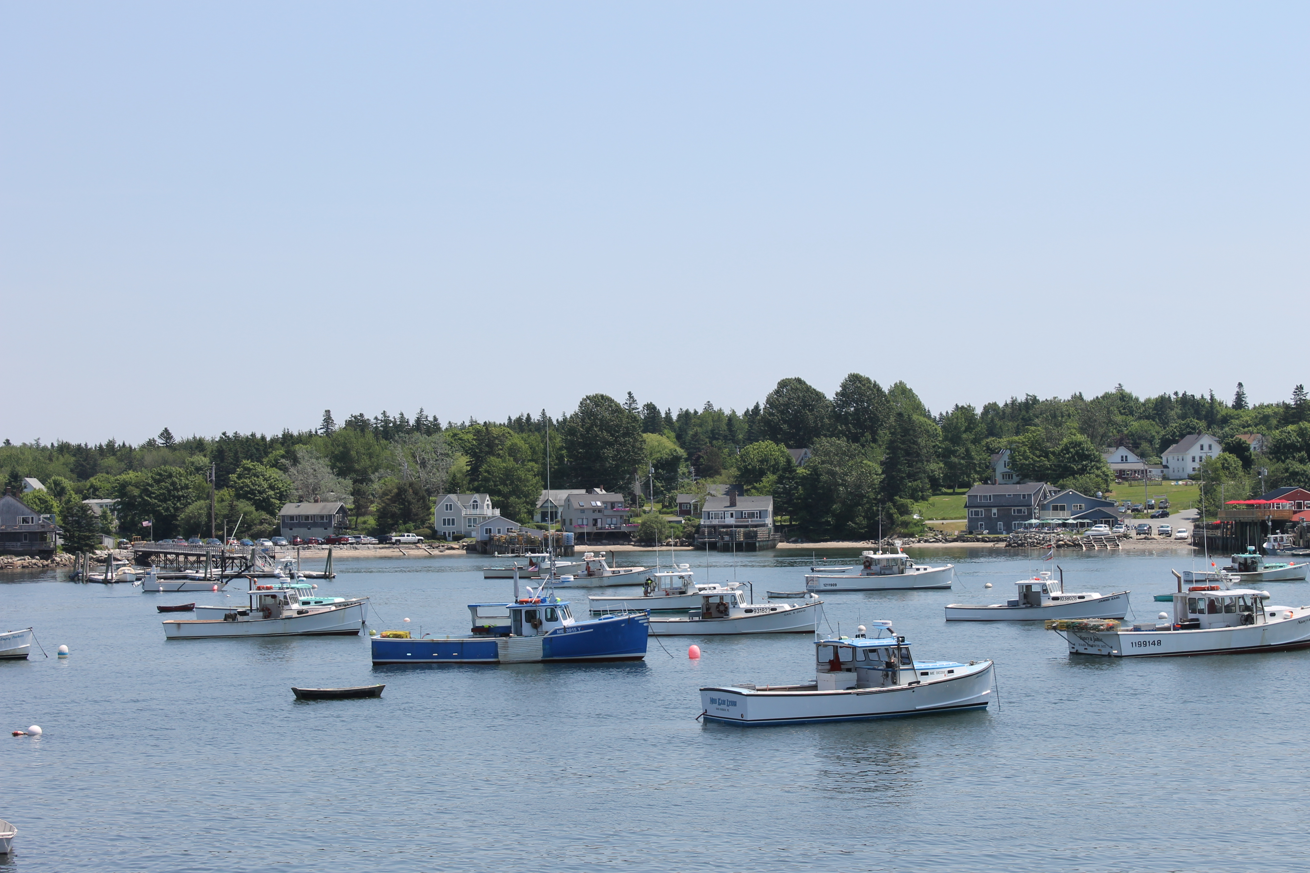 I took photo with Canon camera of boats anchored at Tremont, ME.